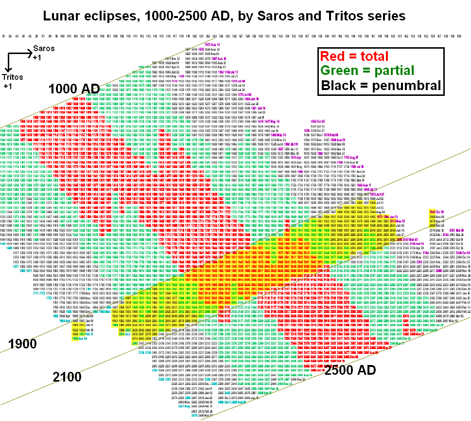 Inex-Saros cycle lunar eclipse panorama, years 1000-2500